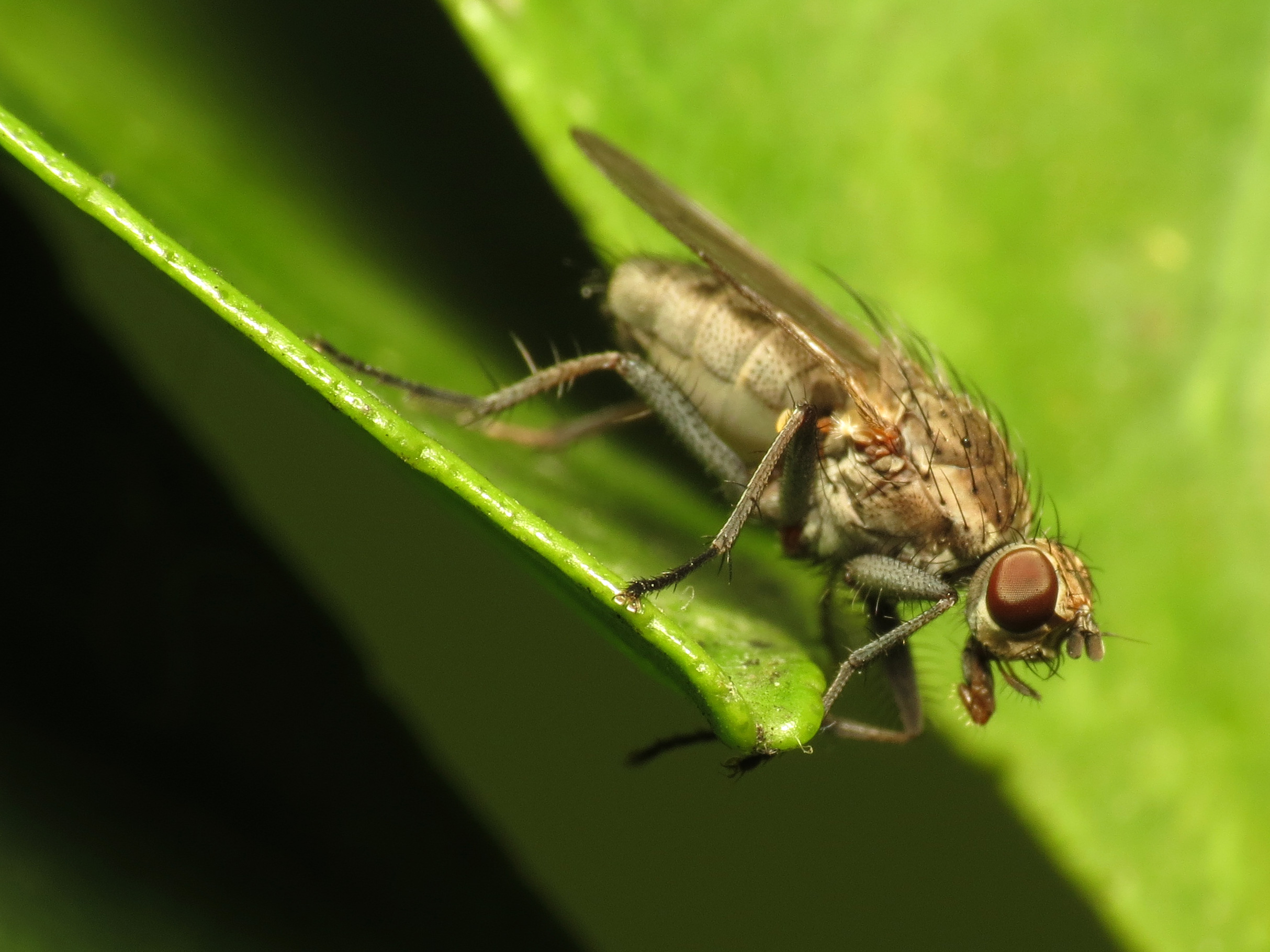 Fucellia sp. Els Poblets, Alicante, Spain. Thanks to Marcello Consolo for help with the ID on iNaturalist.